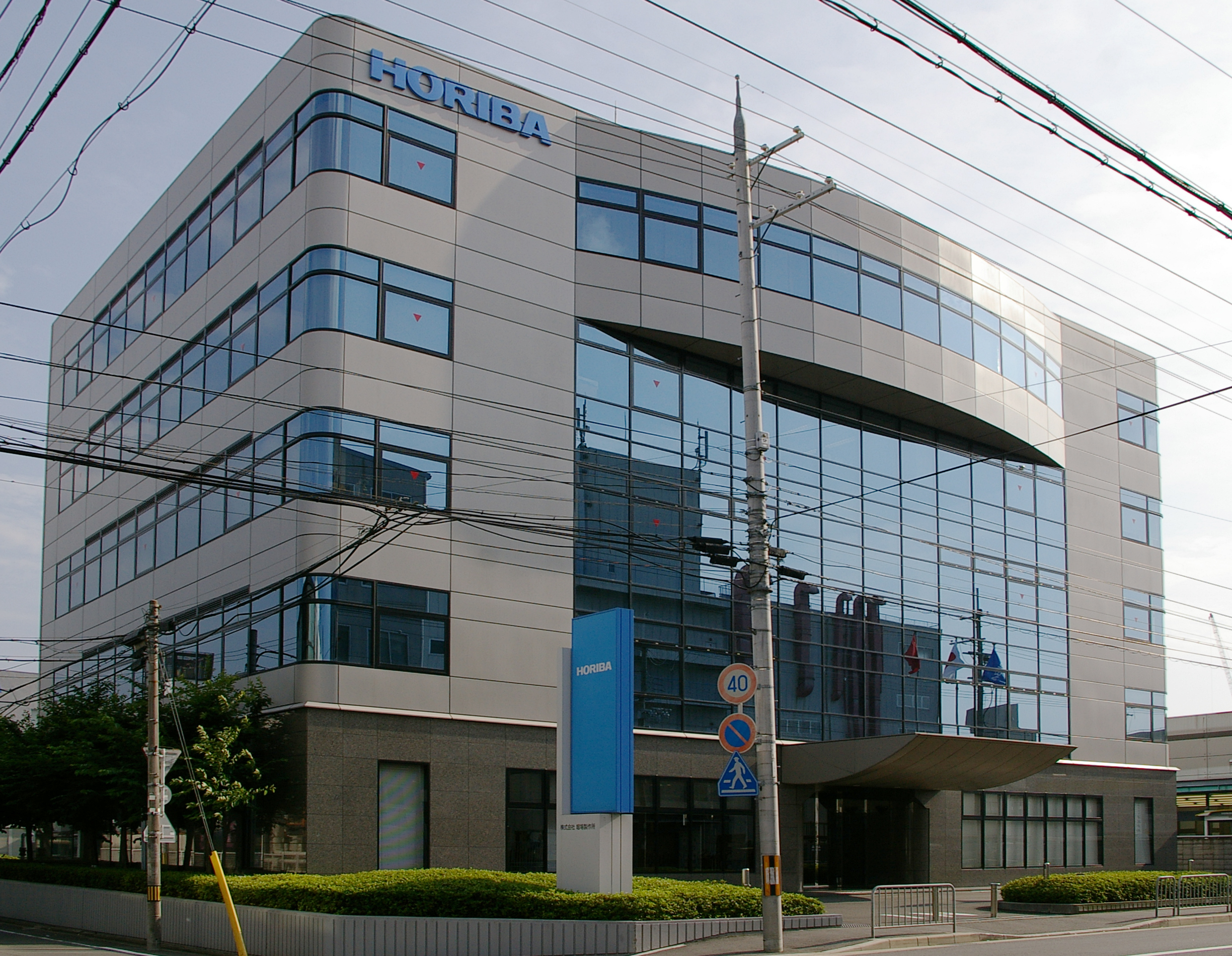 Photograph of head office of HORIBA, Ltd. in Minami-ku, Kyoto, Kyoto Prefecture, Japan.